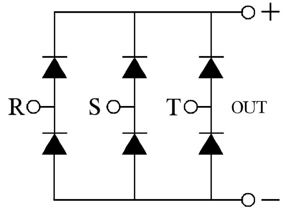 tri-phase bridge rectifier schematic